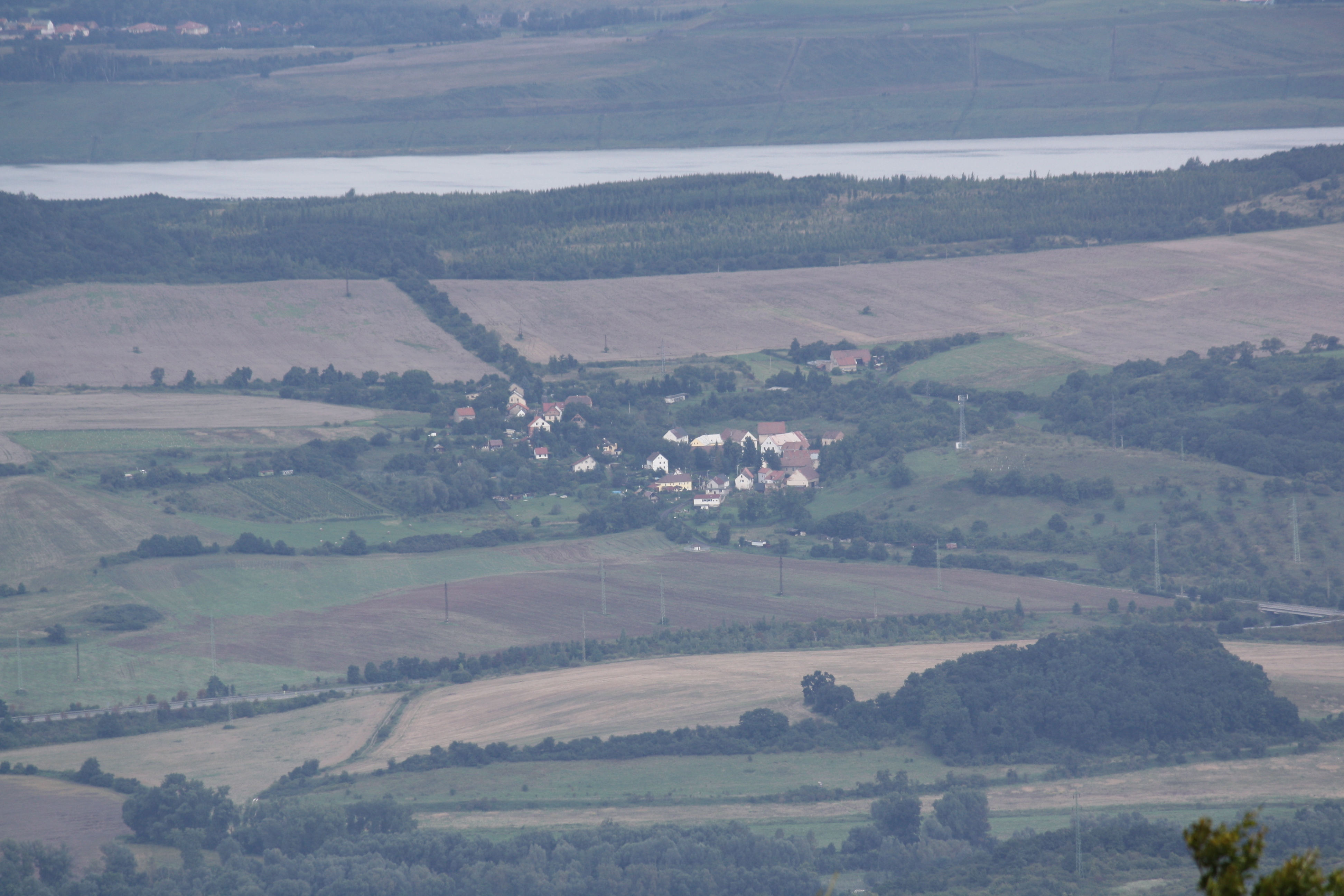 Habří village (Řehlovice municipality) as seen from Milešovka Hill, České středohoří, Czech Republic.